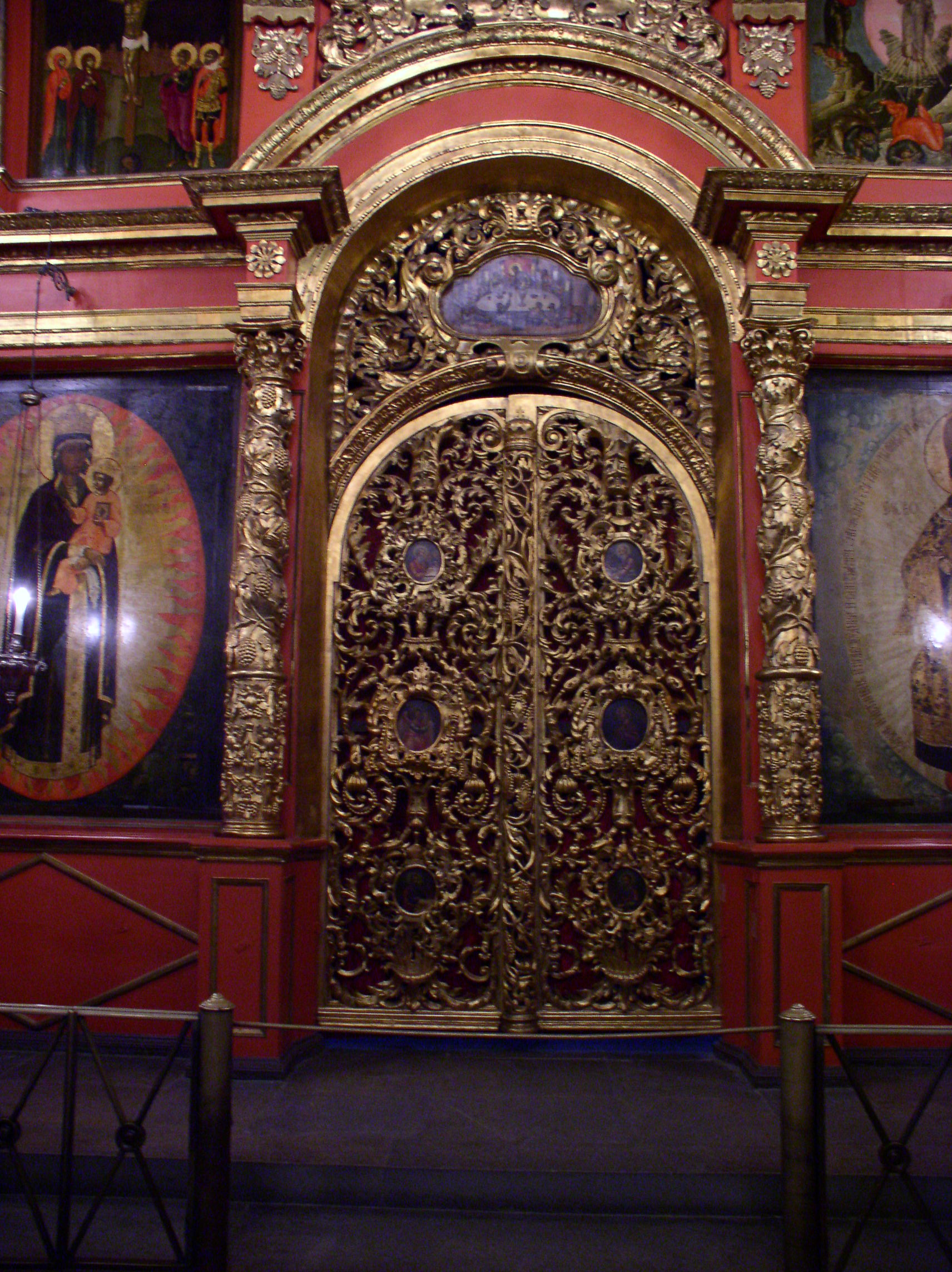 Moscow Kremlin museums exhibitions. Moscow, Russia.